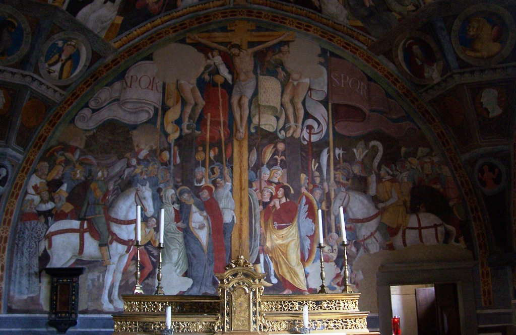 Crucifiction, St Mary, Esine, Val Camonica